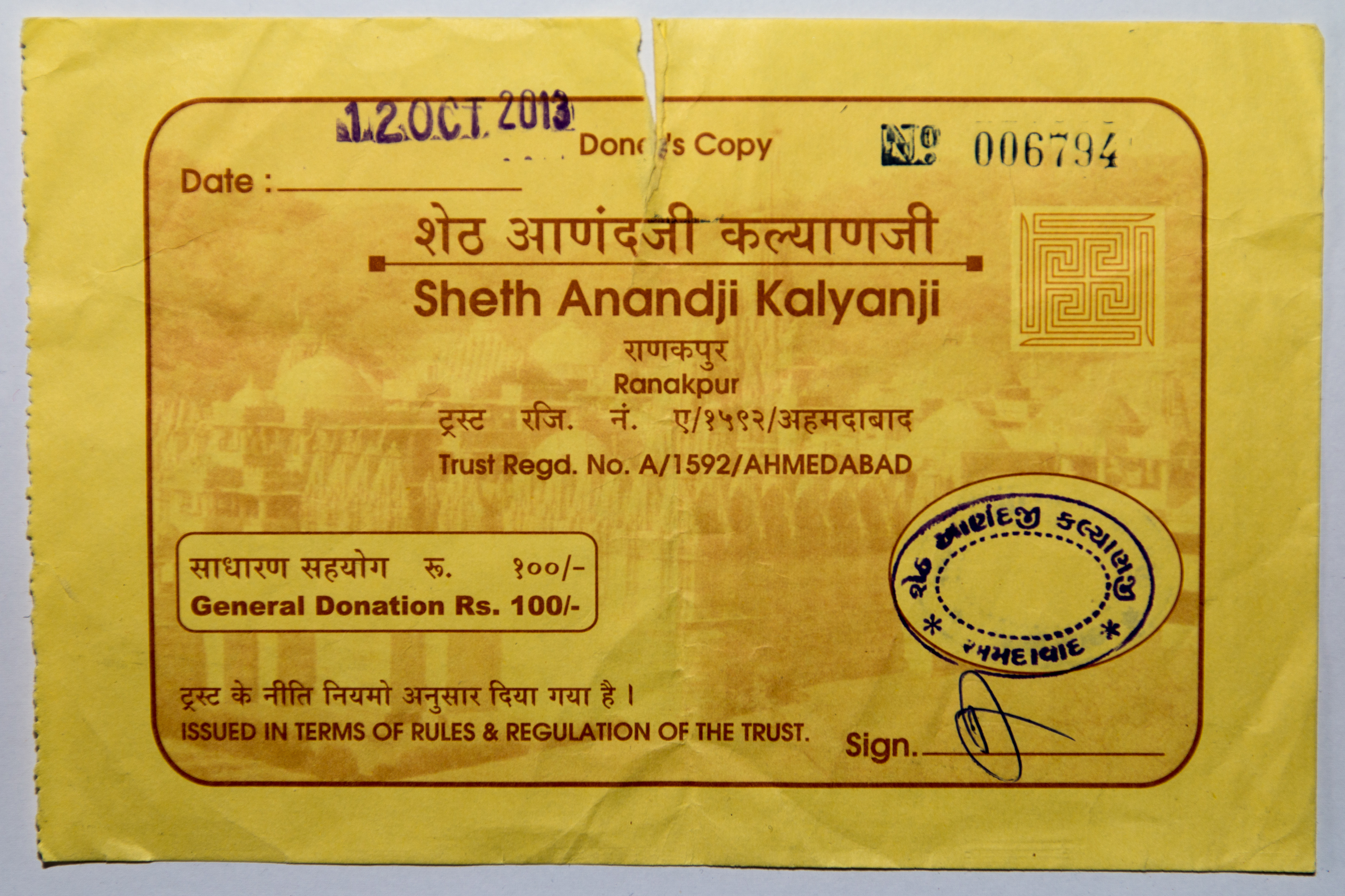 A small donation pay access to visit the refuge of Kalyanji Anandji Shet Trust.